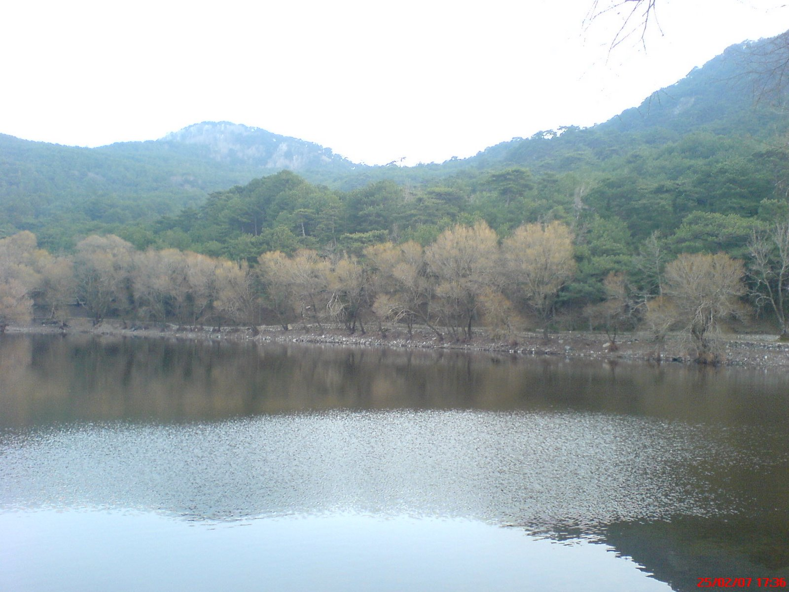 Lake Karagöl in Mount Yamanlar, İzmir, Turkey, associated with Phrygian / Lydian semi-legends surrounding Tantalus and his son Pelops, sometimes referred to as such as Lake Tantalus